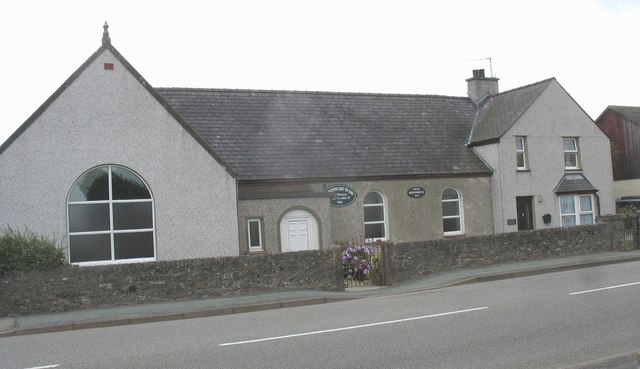 Capel Pisgah (Baptist) and chapel house, near to Llangristiolus, Isle of Anglesey/Sir Ynys Mon, Great Britain. This chapel was built in 1875.